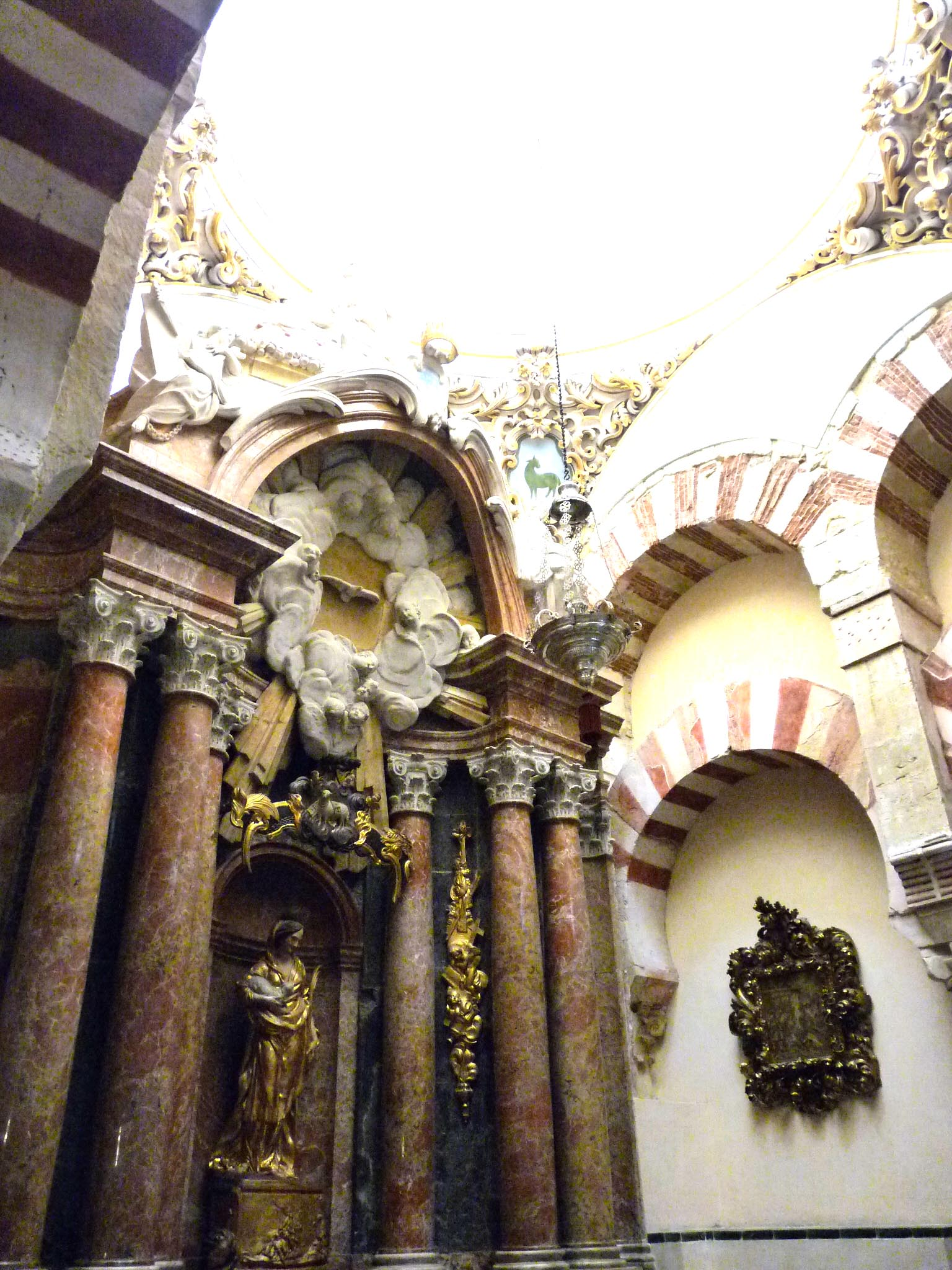 Mezquita 10